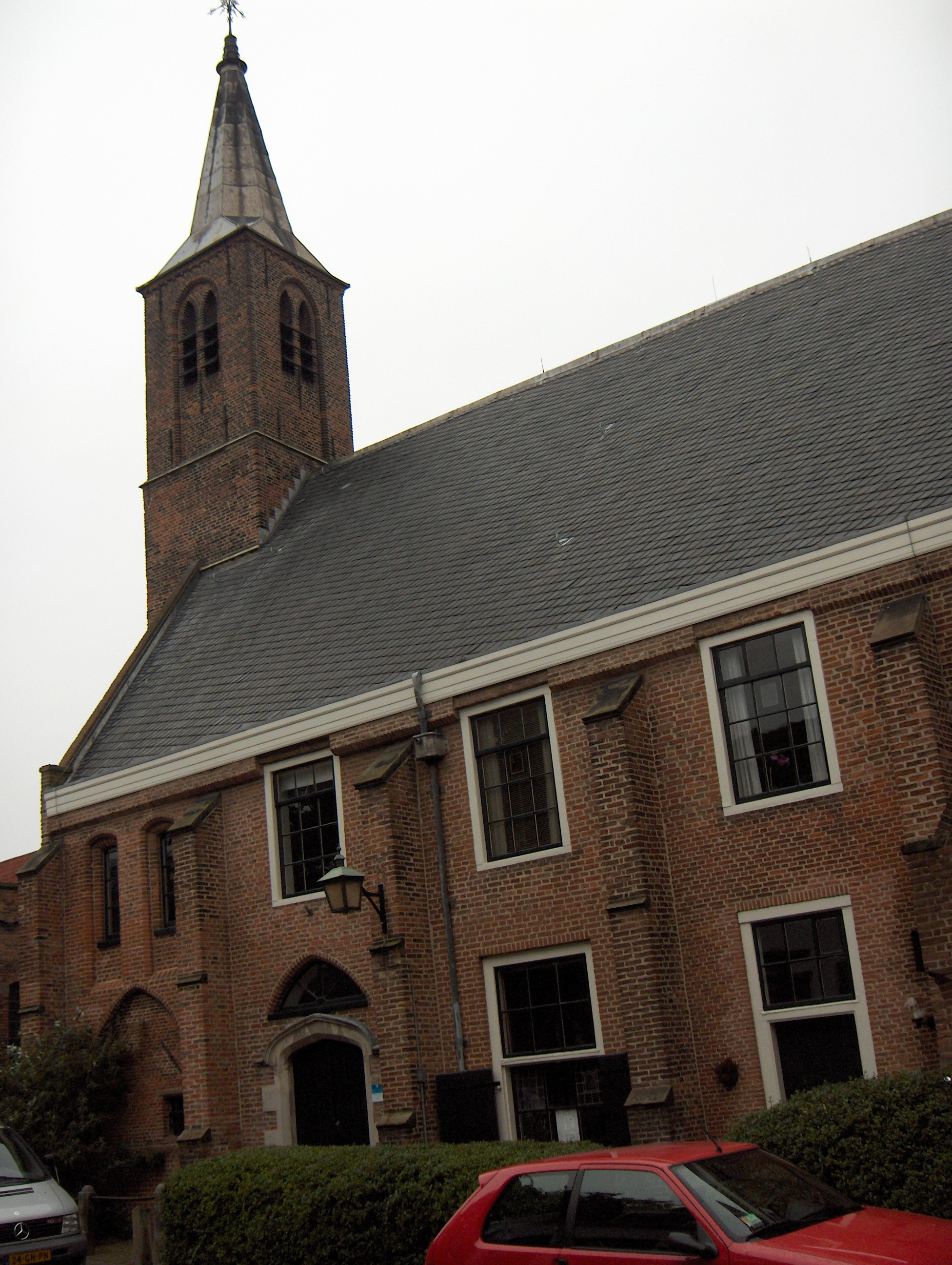 Waalse Kerk (Eglise Wallonne), Begijnhof 30, Haarlem, Netherlands Oldest church in Haarlem